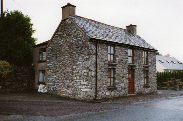 Old An Óige Youth Hostel at Ballingeary, Co Cork Ballingeary Youth Hostel opened in 1971 and closed in 1982. It was situated at Bridge House, at the west end of the village. The building has been greatly altered since its return to domestic use; part has been demolished, and the old whitewash finish has been removed. I remember it as a very cramped little place, with a tiny kitchen. At the back of the building there was once a strange corrugated iron structure, now gone.